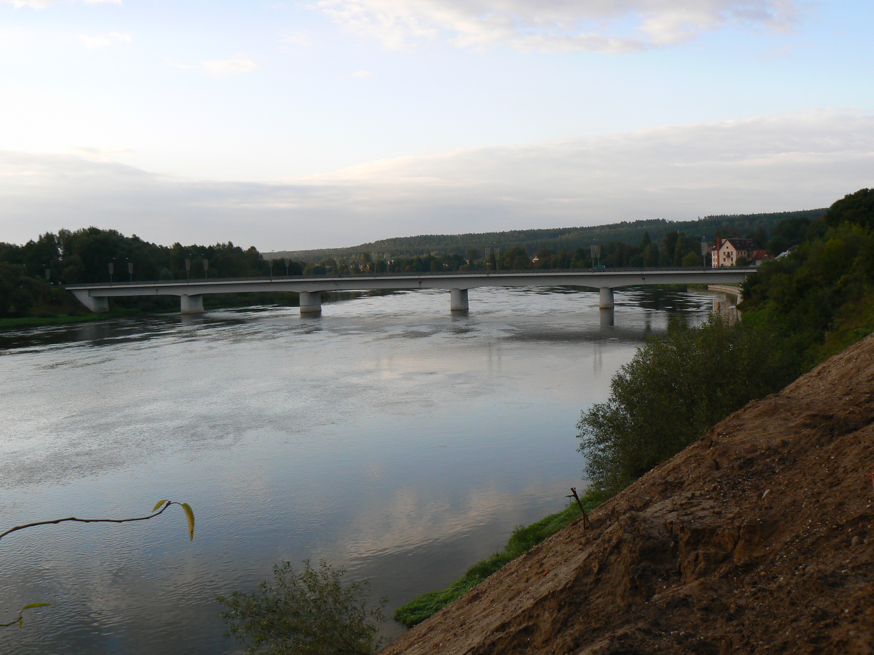 River Neman by Prienai